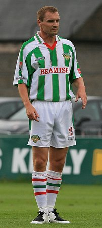 Copyright (c) 2007 Peadar O'Sullivan - Released under the GFDL license.